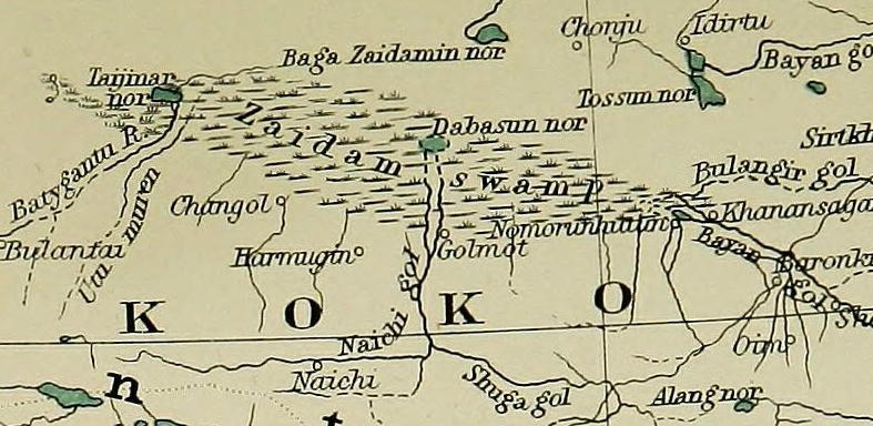 The marsh of the Qaidam Basin ("Zaidam Swamp"), with names given using Chinese Postal Romanization.